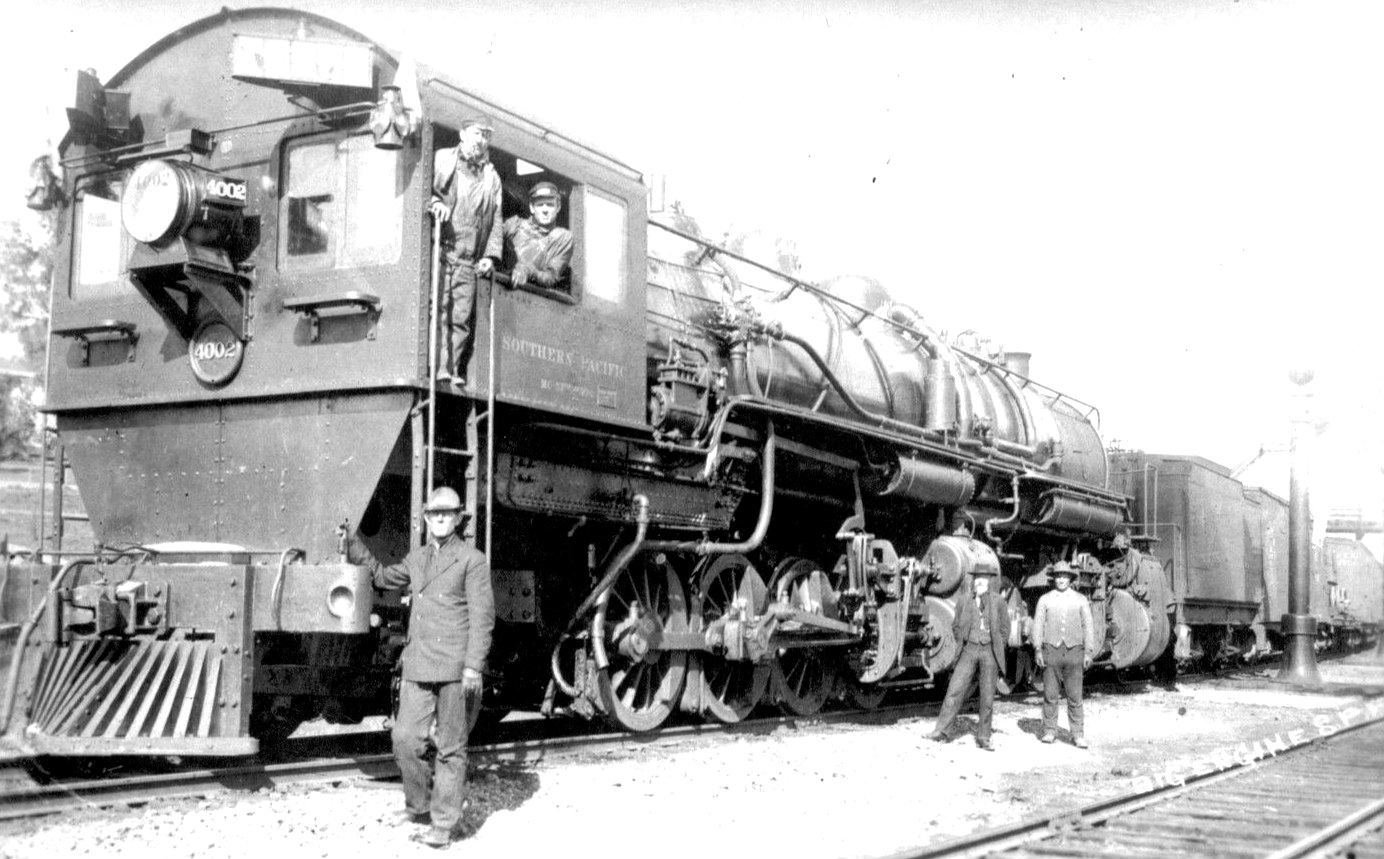 Postcard photo of Southern Pacific forward cab locomotive 4002.